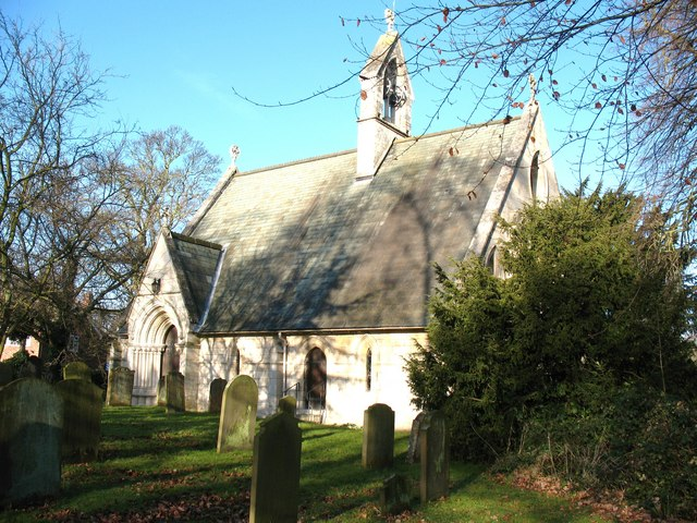 St Giles' Church, Skelton At first glance this small village church might be mistaken for a Victorian building in an Early English style, but the church is 13th century, beautifully built, and in remarkably good condition. A lovely little building.